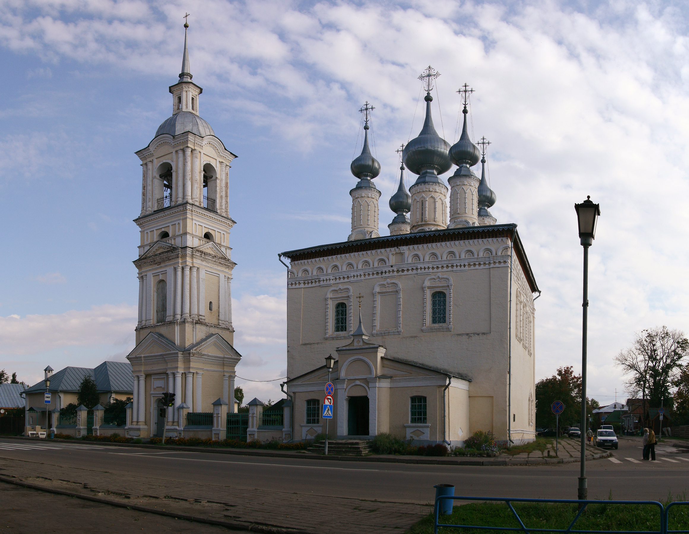 Summery Church of the Theotokos of Smolensk, Bell Tower and Wintry Saint Simeon Stylites Church, Suzdal, Russia